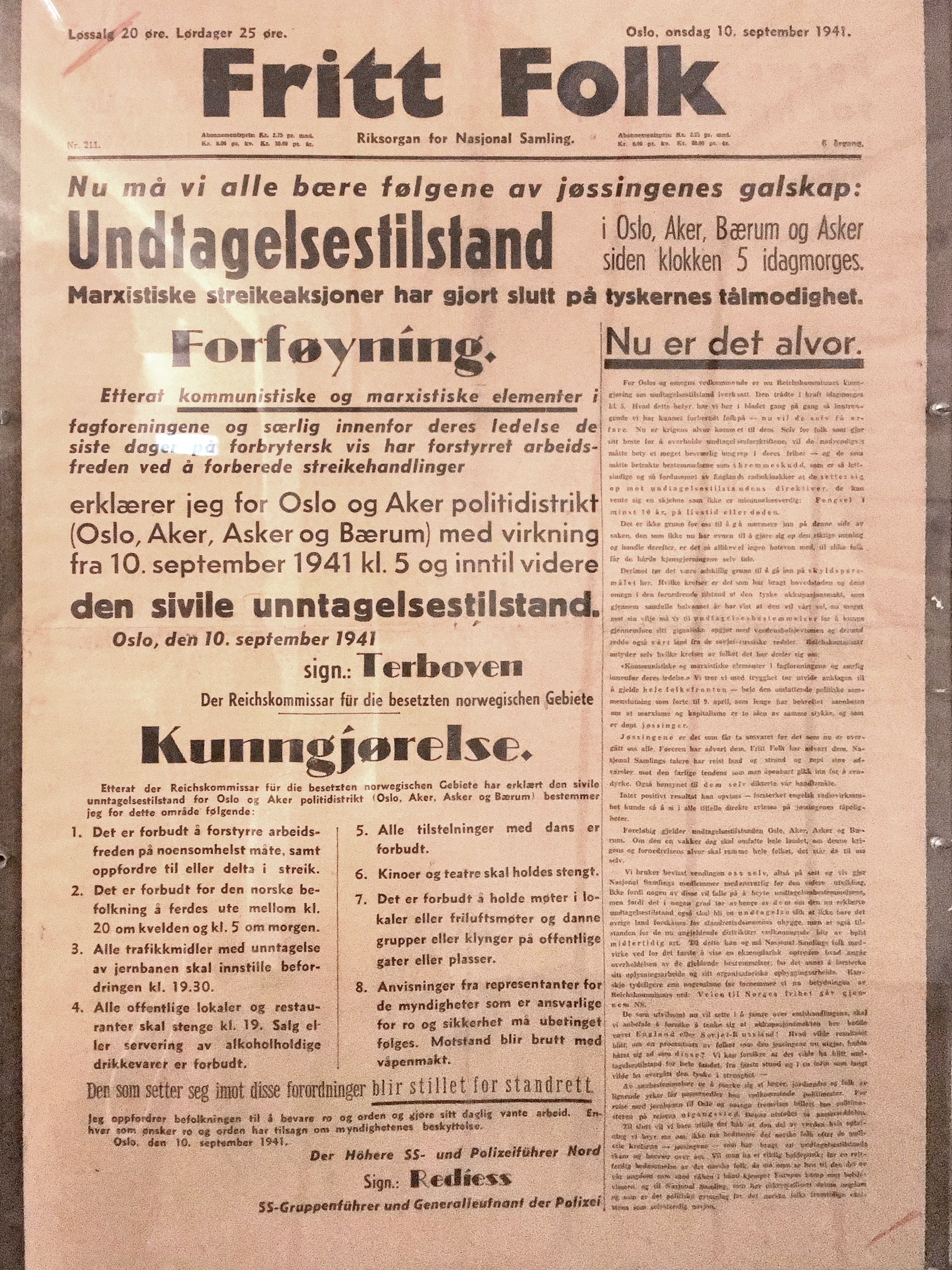 "Fritt Folk", newspaper of fascist party Nasjonal Samling (NS) before and during World War 2, dated September 10, 1941, with "Forføyning" about State of emergency in Oslo signed by Josef Terboven and Wilhelm Rediess. From exhibition in Norway's Resistance Museum (Norges Hjemmefrontmuseum) in Oslo. Lightened, strechted version of photo 2017-11-30